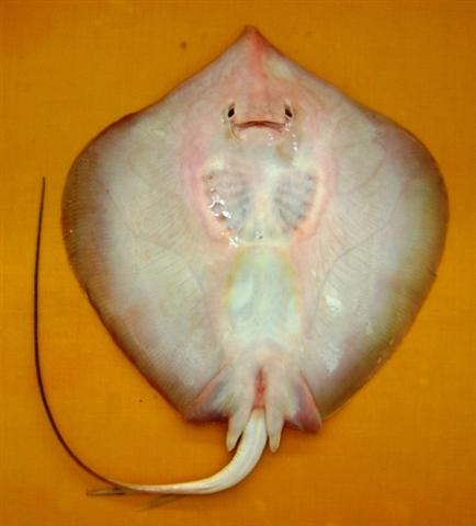 Himantura walga from Karachi, Pakistan